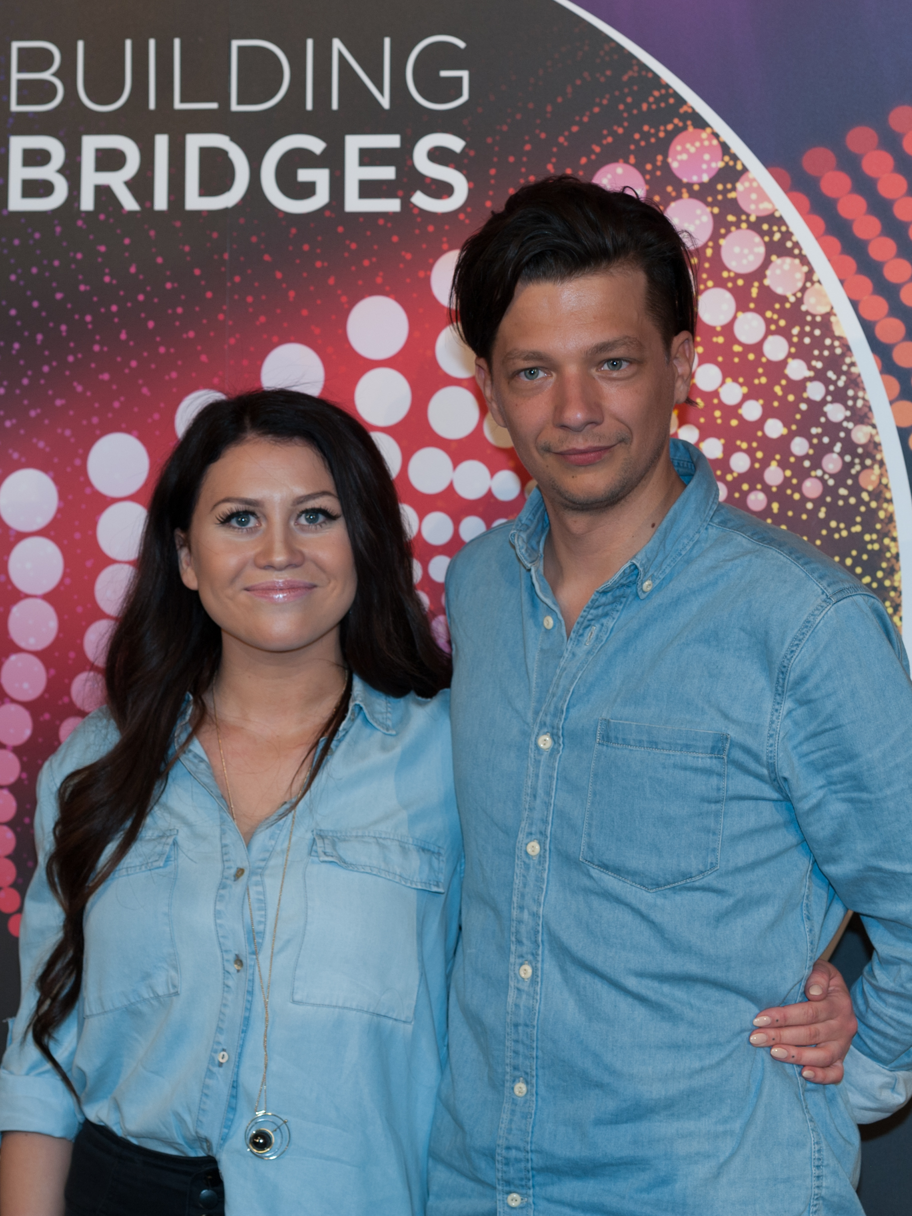 Eurovision Song Contest Vienna 2015: Elina Born & Stig Rästa